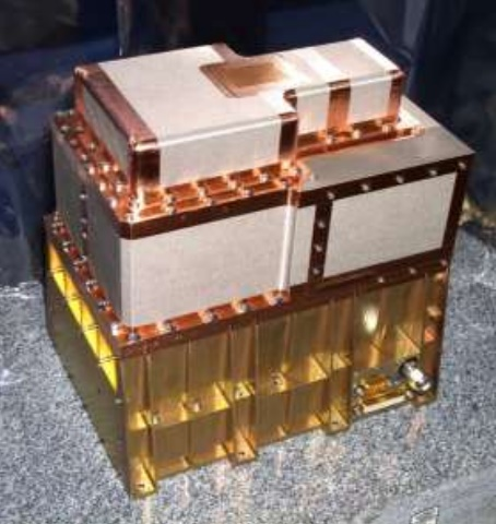 Gamma Ray and Neutron Detector (GRaND) is the scientific instrument carried by Dawn spacecraft to measure the elemental composition of both Vesta and Ceres. It uses a total of 21 sensors with a very wide field of view to measure the energy from gamma rays and neutrons that either bounce off or are emitted by a celestial body, revealing many of the important atomic constituents of the its surface down to a depth of 3 feet (1 meter). The instrument is provided by Los Alamos National Labs and operated by the Planetary Science Institute.